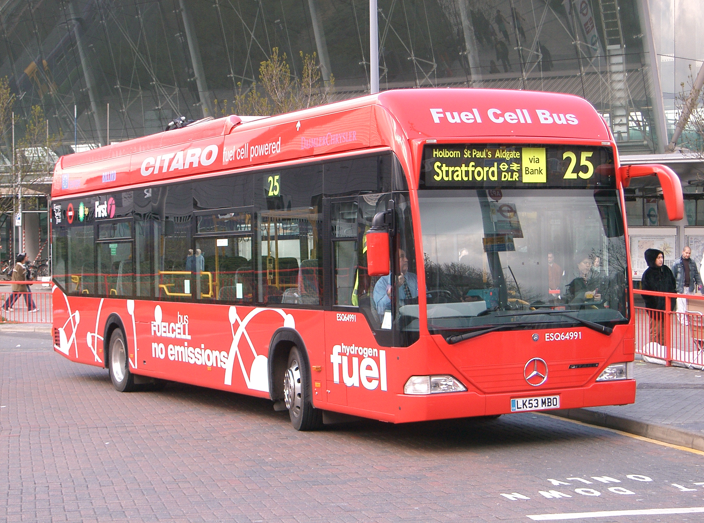 First London bus ESQ64991 (reg. LK53 MBO), a 2003 Mercedez-Benz Citaro single-deck fuel cell bus in public service on route 25 in London, outside Stratford railway station. This station will be renamed as 'Stratford Regional' to differentiate it from the Stratford International station being built for the Eurostar trains and 2012 Olympic games. Although the date is correct the time as shown in the metadata will be wrong, as this was photographed at something like 9.40am.